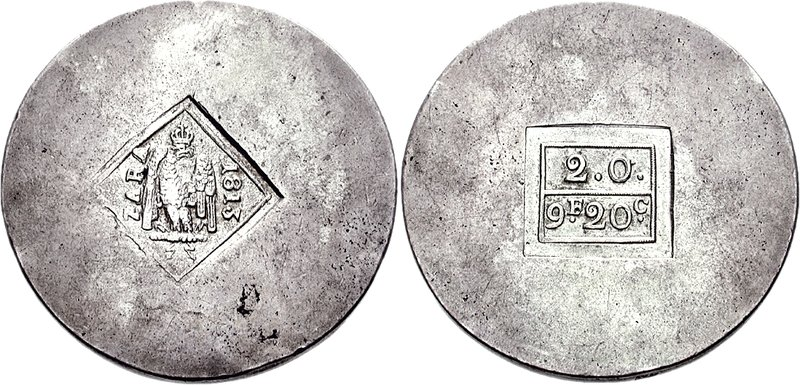 Croatia, Zara. AR 9 Francs 20 Centimes (59.57 g, 11h). Siege issue. Dated 1813. Crowned imperial French eagle standing left on thunderbolt, head right, with wings displayed; ZARA to left, 1813 to right; all within diamond incuse on plain round flan; c/m: SB in incuse square 2.0./9F 20C in two lines on tablet; all within incuse square on plain round flan. De Mey & Poindessault 853; Montenegro 86; KM 2. Good VF, lightly toned. "During the late Napoleonic era, Zara (modern-day Zadar in Croatia) was part of the Illyrian Provinces, a group of states located between Austria and the Adriatic Sea. In the early 1800s, the area was held by Austria, which was embroiled in the Napoleonic Wars. After its defeat at the Battle of Wagram, Austria ceded the territory to France in the 1809 Treaty of Schönbrunn. In an attempt to take back its lost territory, in 1813 Austria declared war on France. When the Austrian General Franz Tomassich entered the Illyrian Provinces, many Croatian soldiers abandoned their French commanders and joined him. After a 34-day siege, the Austrians succeeded in capturing Zara from the French on 6 December 1813. This piece was produced by the French garrison that held the town during the siege. A similar example, appearing in Gorny & Mosch 123 (11 March 2003), lot 4589, realized €1700."